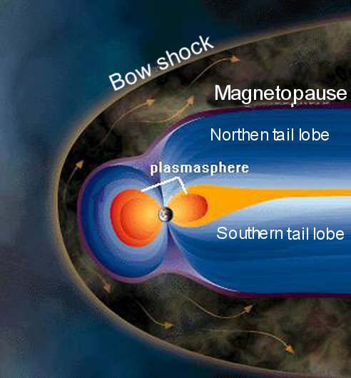 Artist's concept of the magnetosphere. The rounded, bullet-like shape represents the bow shock as the magnetosphere confronts solar winds. The area represented in gray, between the magnetosphere and the bow shock, is called the magnetosheath, while the magnetopause is the boundary between the magnetosphere and the magnetosheath. The Earth's magnetosphere extends about 10 Earth radii toward the Sun and perhaps similar distances outward on the flanks The magnetotail is thought to extend as far as 1,000 Earth radii away from the Sun.